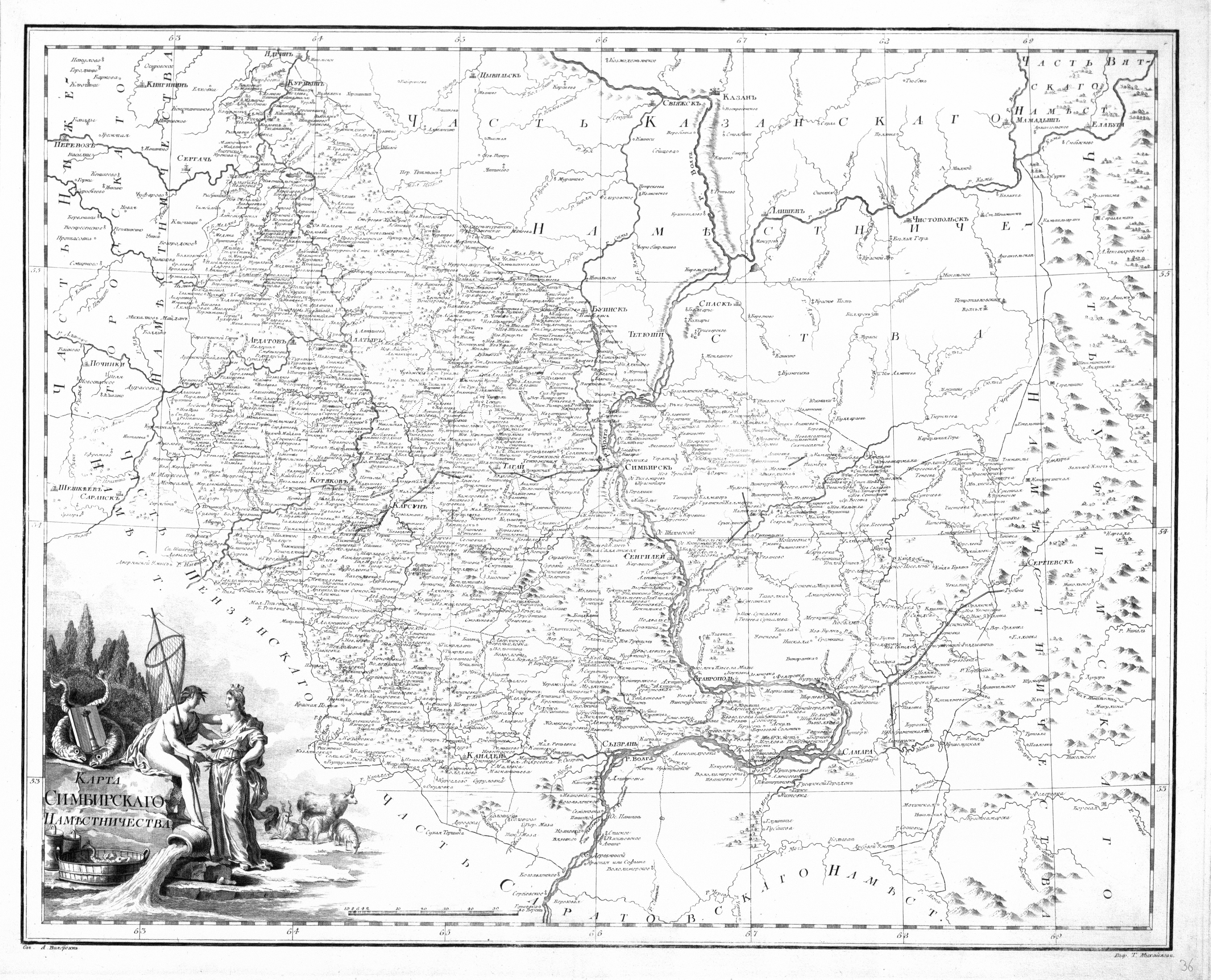 Map of Simbirsk Namestnichestvo (sheet 36) from official Atlas of the Russian Empire (1792).